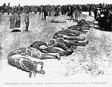 Victims of the red teror in Evpatoria, killed in January 1918